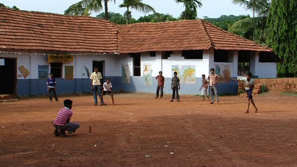 Dabba Kali, game played in Kerala